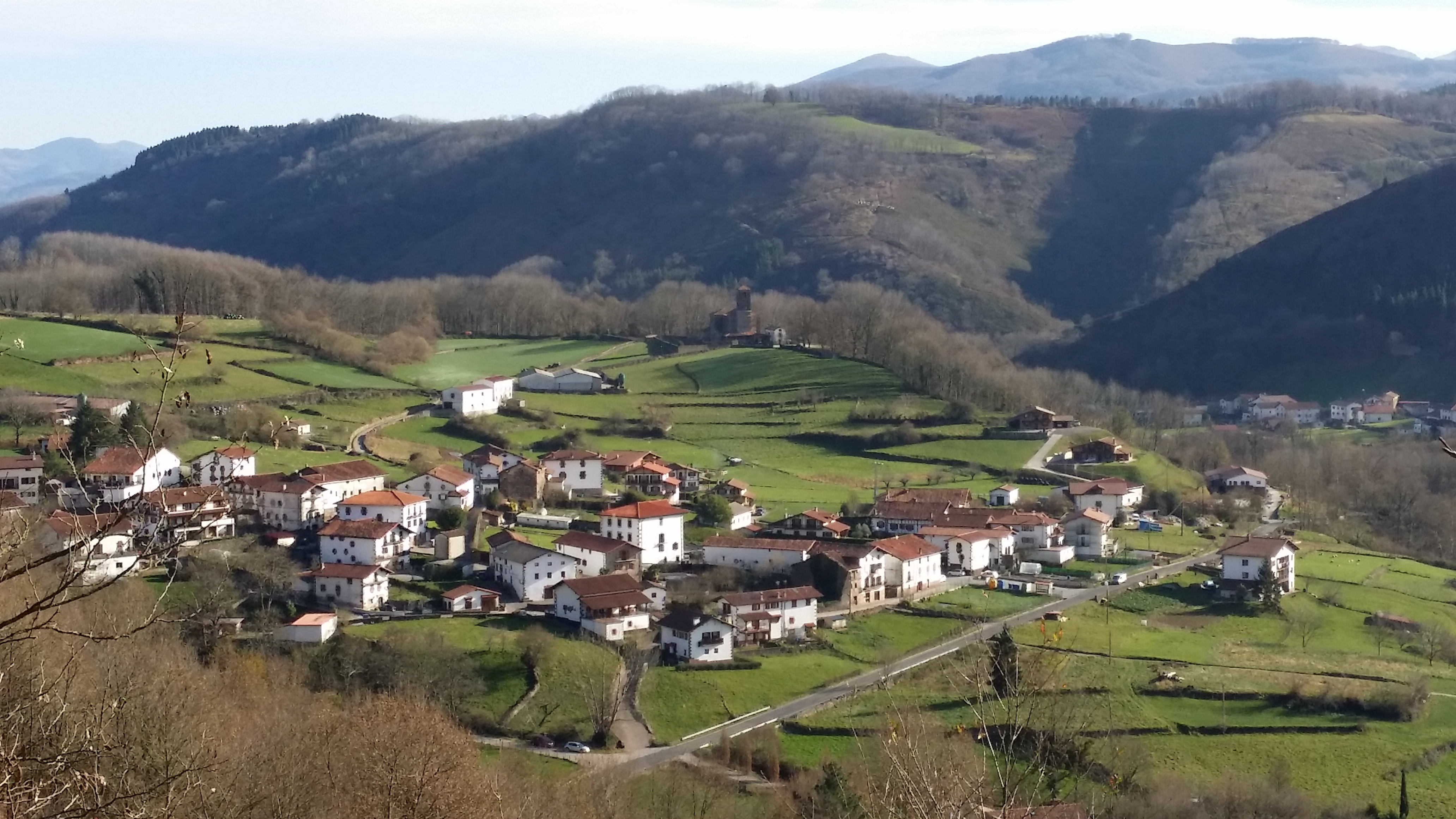 View of Aurtitz (Ituren)